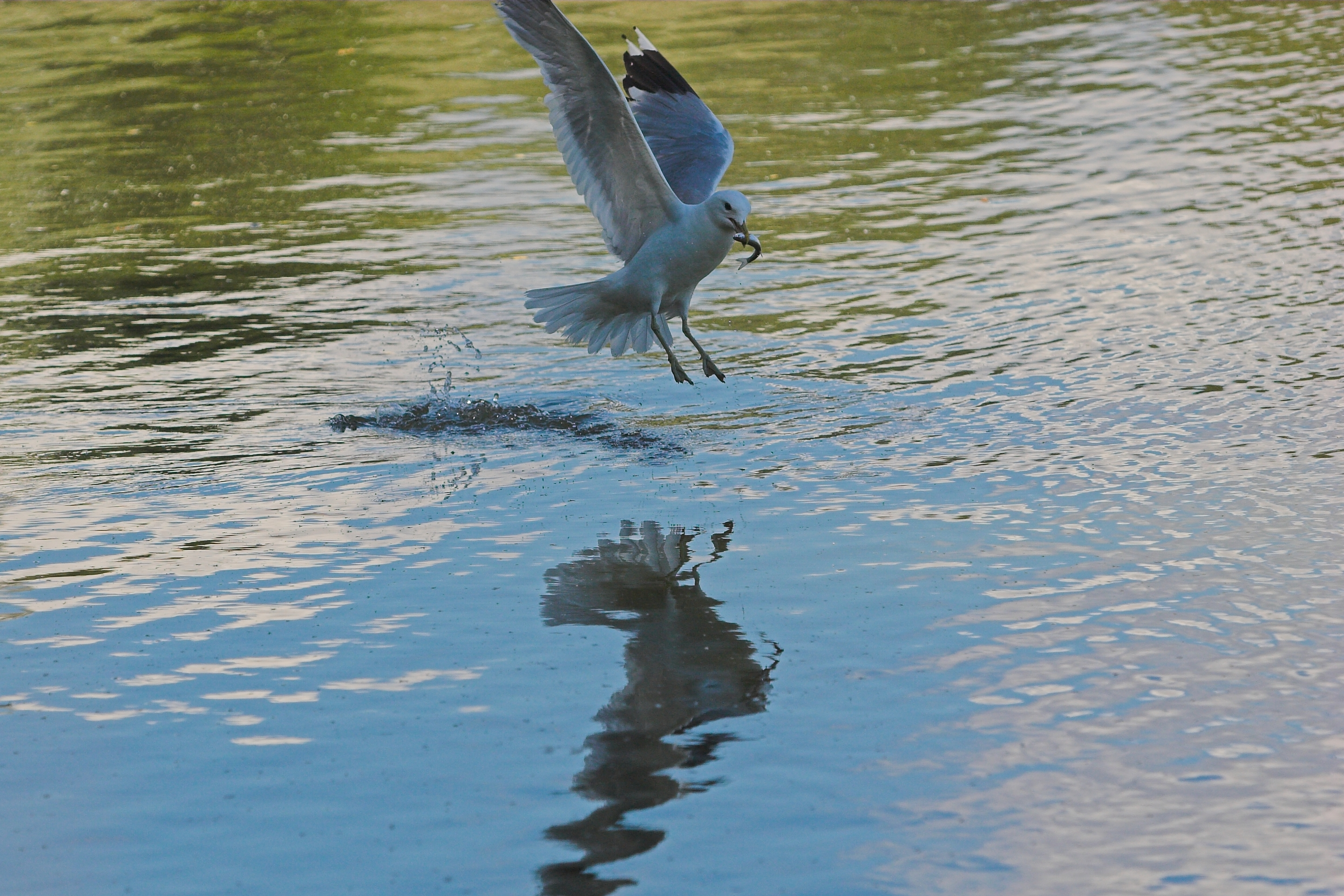 I was watching by a certain bay in Helsinki, Finland, where I know the birds tend to gather. After about one hour of taking photos, I noticed that the birds in certain shadowy part of the bay where making swoops and diving into the water. I decided to move to that part of the bay. This is a five part set of Larus Canus fishing. The files are LarusFishingA-E. Larus Canus fishing (1) Larus Canus fishing (2) Larus Canus fishing (3) Larus Canus fishing (4) Larus Canus fishing (5) If you wonder why the last two frames are badly framed, the reason is quite human. My leg started to sink in the mud and I had some difficulties of holding my balance.